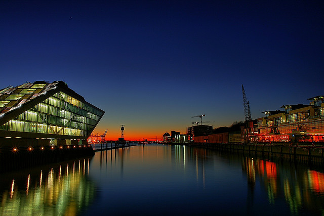 Hamburg harbour with the Dockland building to the left.